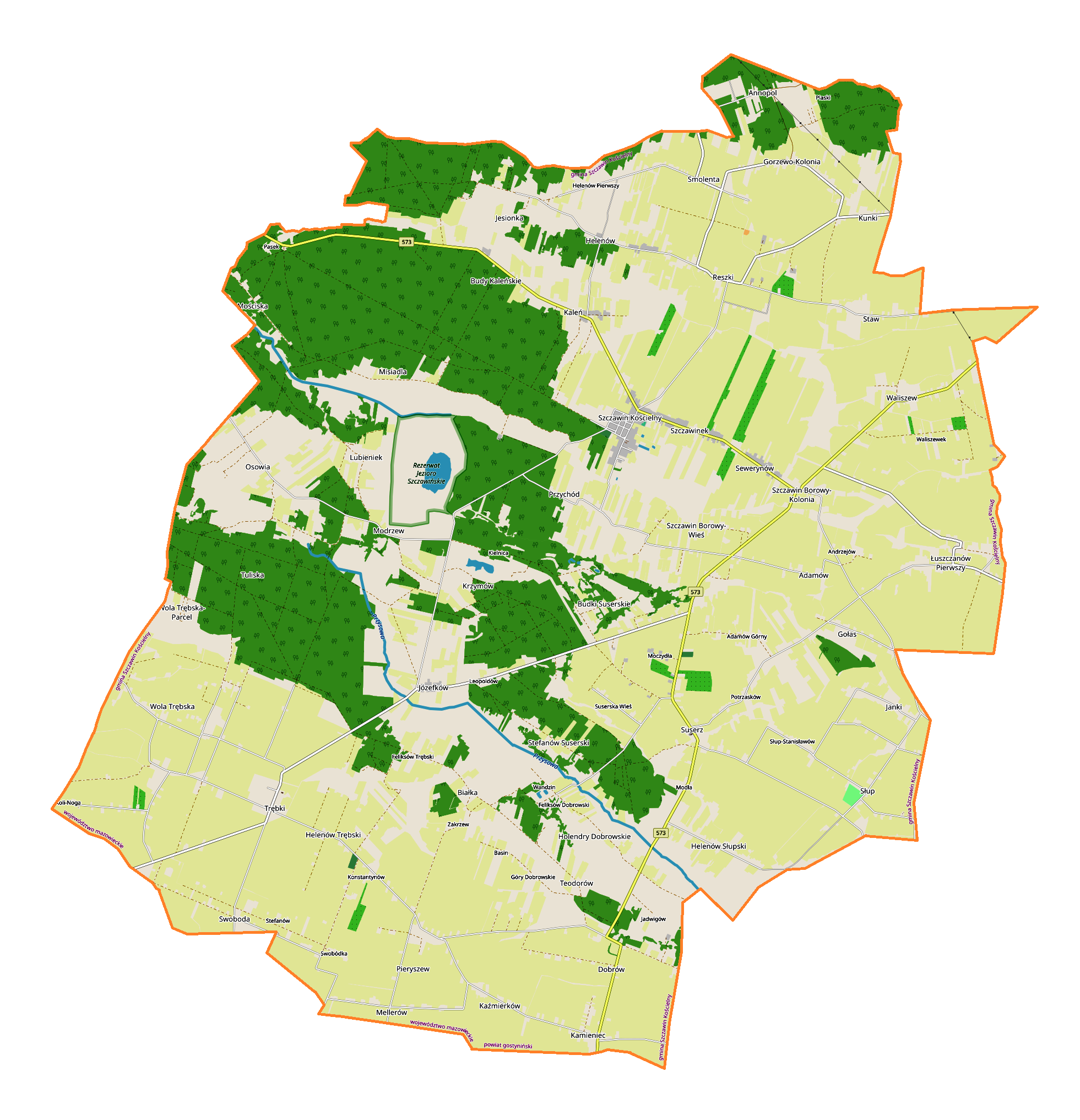 Map of Gmina Szczawin Kościelny, Poland This map of Szczawin Kościelny (gmina) was created from OpenStreetMap project data, collected by the community. This map may be incomplete, and may contain errors. Don't rely solely on it for navigation.